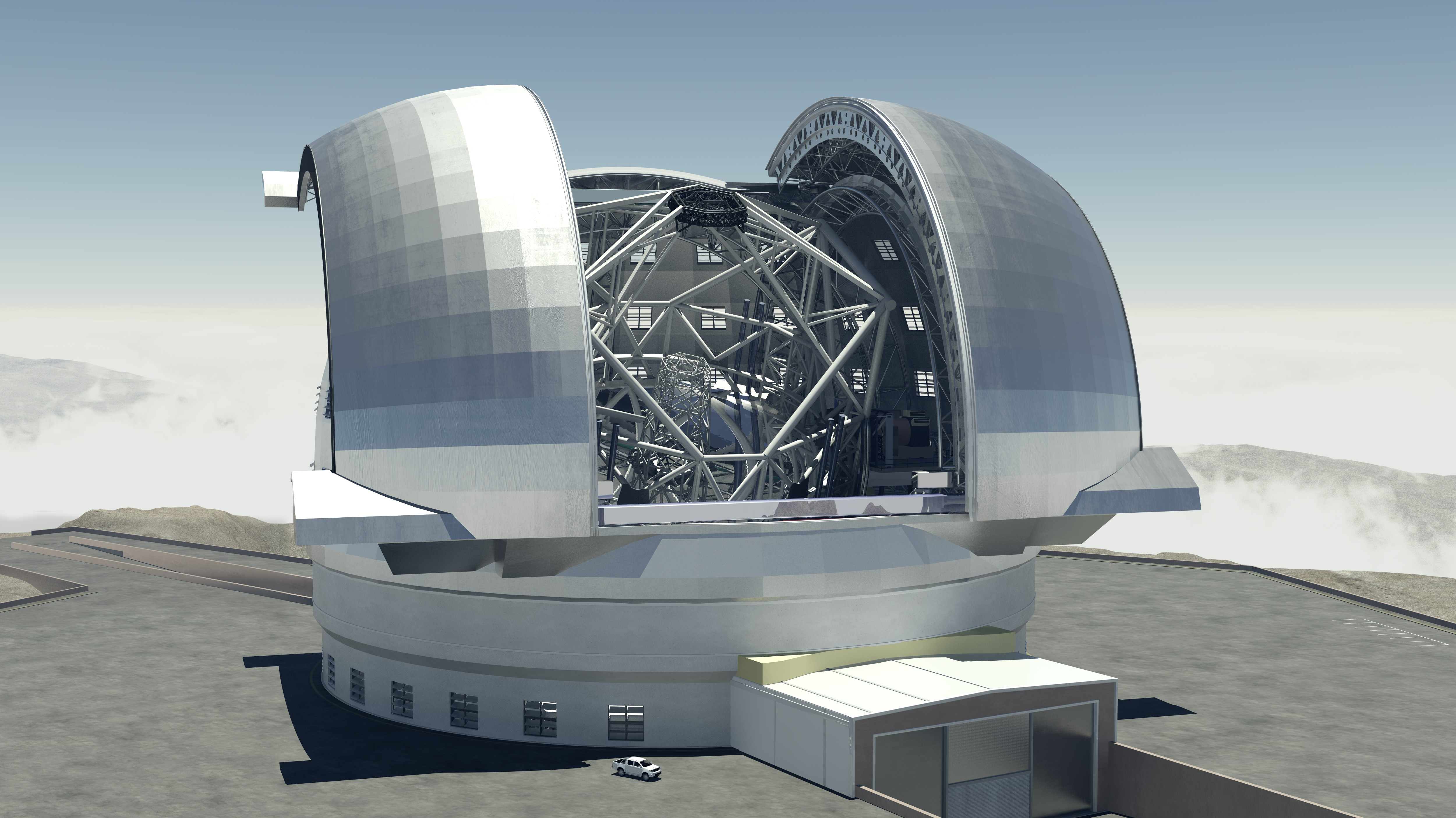 The E-ELT